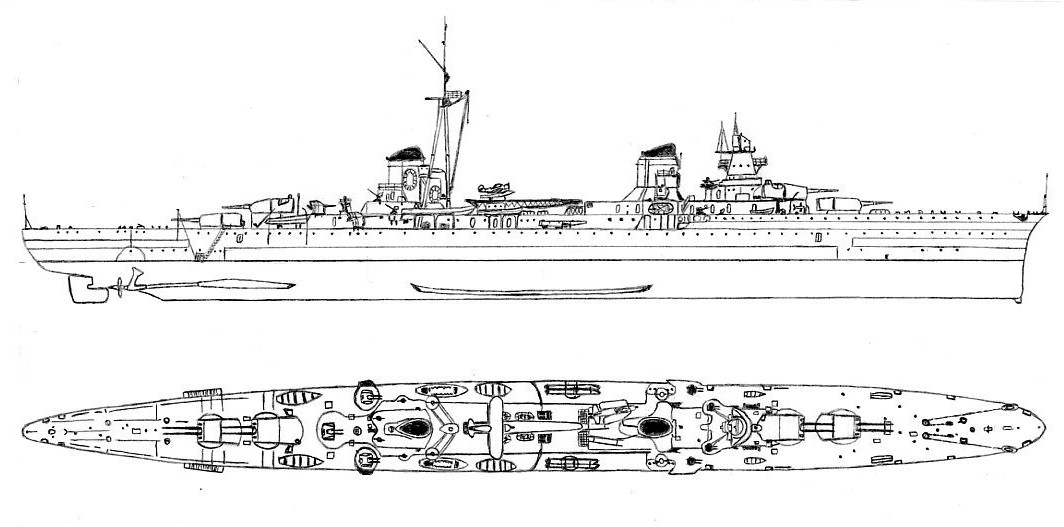 Montecuccoli class cruiser. Scanned drawing.